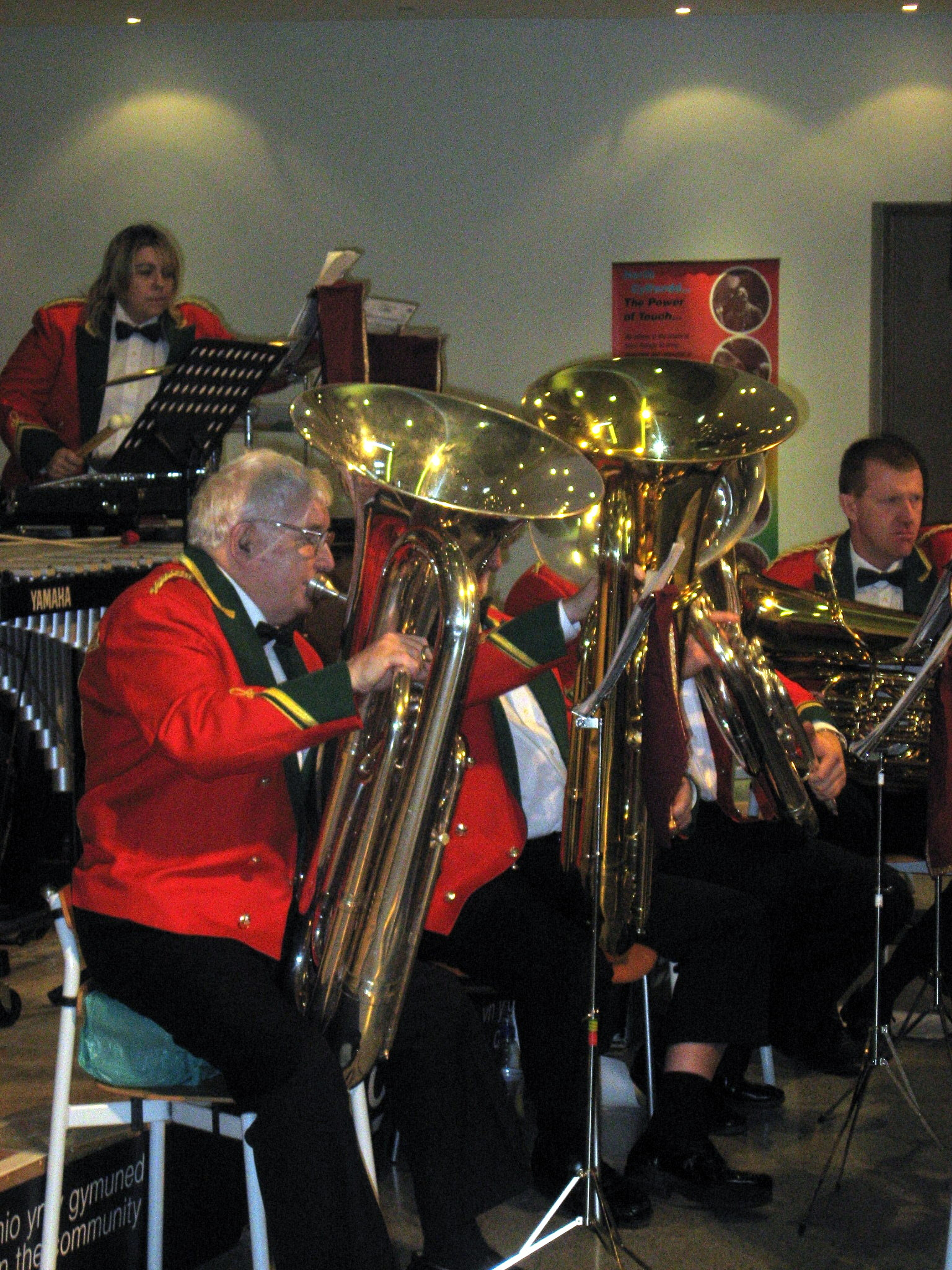 Tubas/Basses in a British brass band